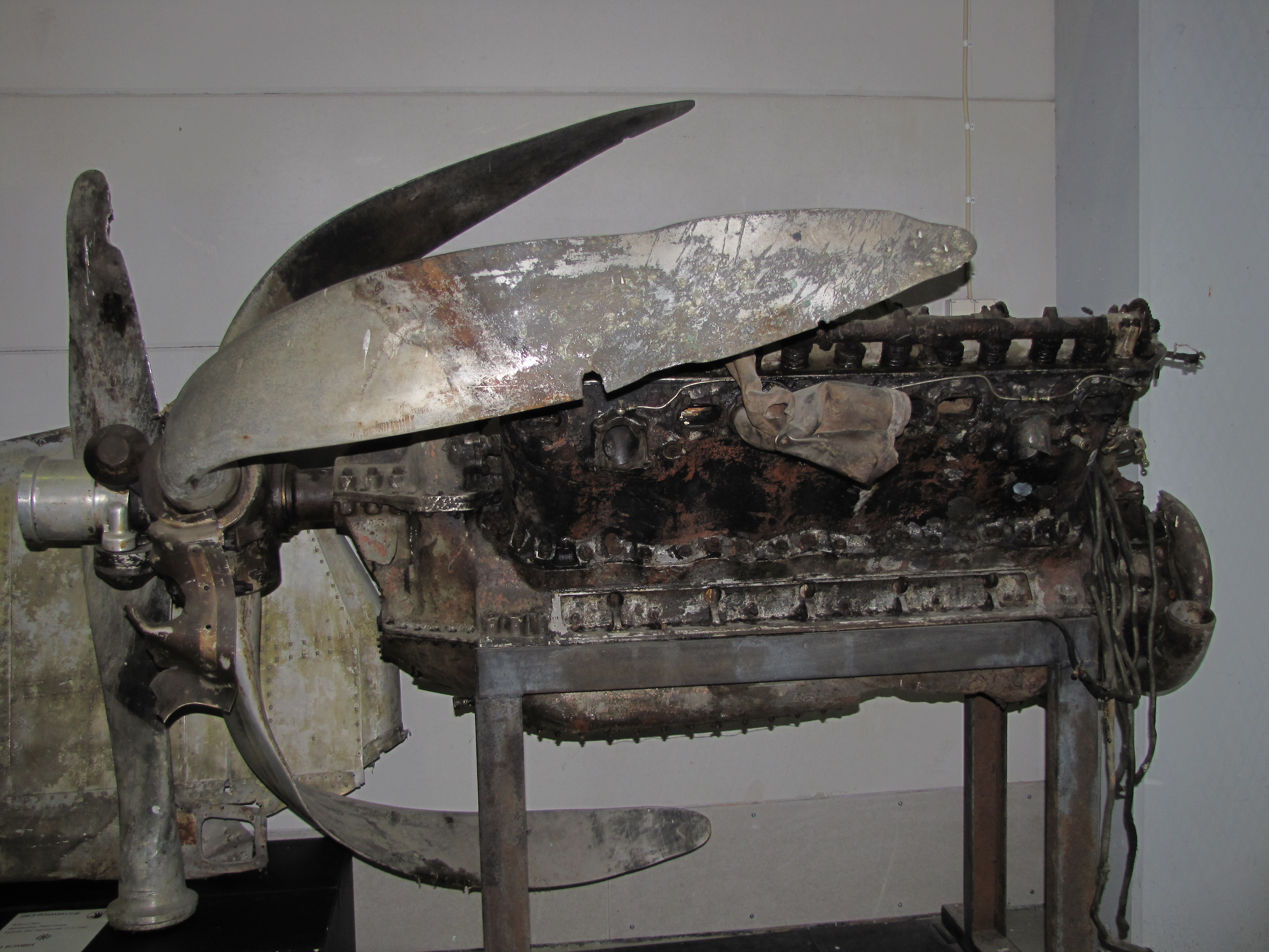 Klimov M-103 engine that belonged to SB-2bis bomber shot down by Finnish fighters in 1941. Recovered from a lake in 1976, photographed in the Finnish Aviation Museum.